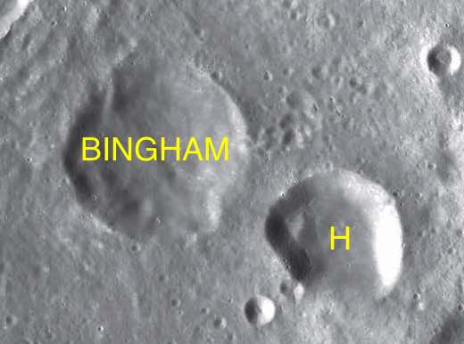 Part of the chart LAC-65 used for the presentation